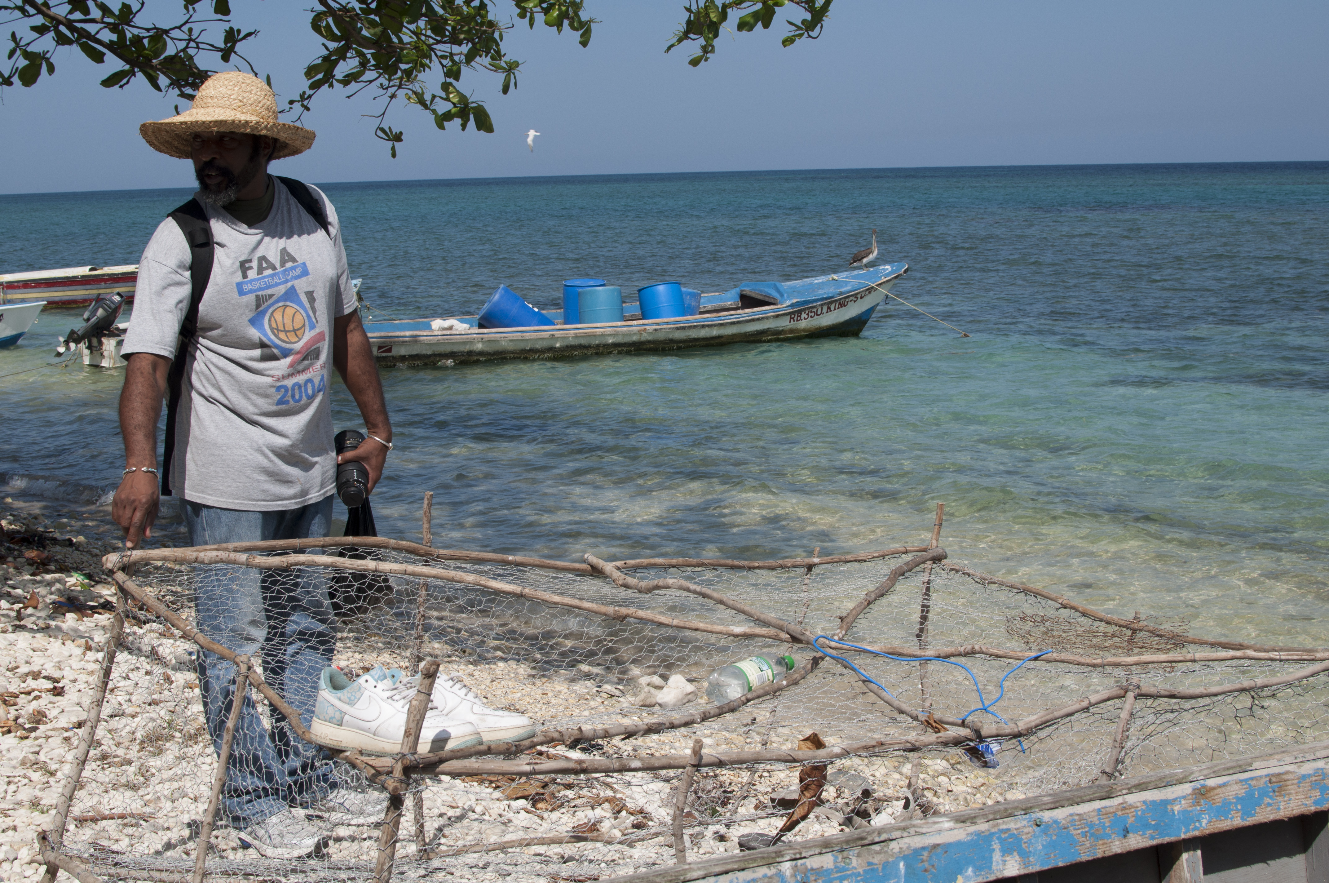 A Hopewell Hanover fishermen "Earl" finds his missing fishing equipment Photo D Ramey Logan